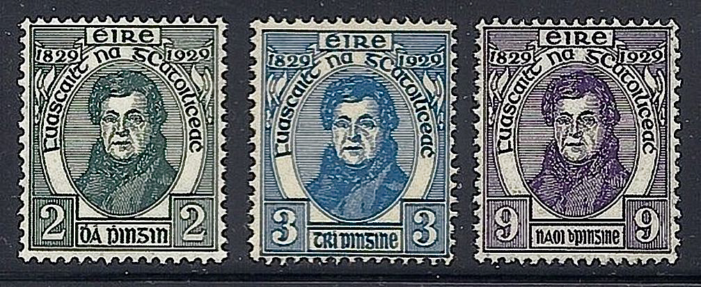 Ireland Postage stamps. Daniel O'Connell commemoratives, set of 3, 1929 issues.The first commemorative stamps issued by Ireland, 1929.